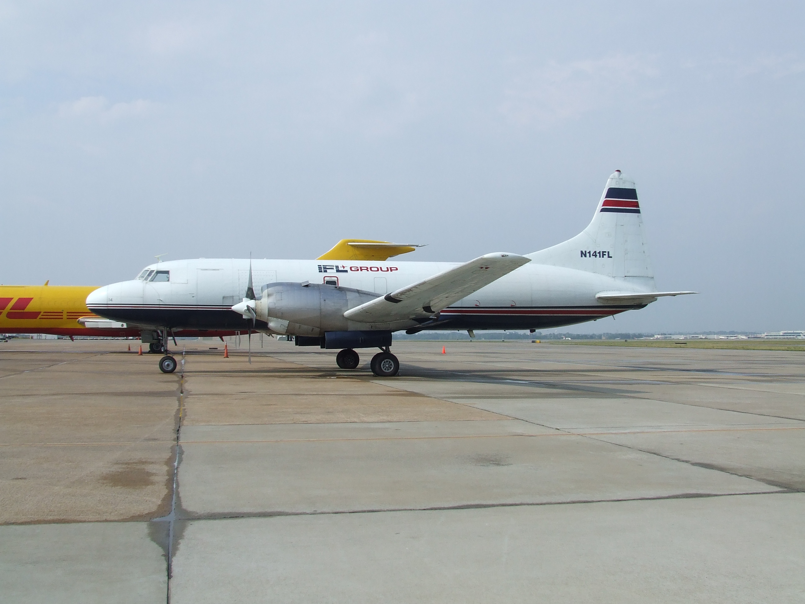 A Convair 580 freighter of the IFL Group. This aircraft started life as a 340, then was converted to 440 standard and finally was converted as a 580. Digital photo of N141FL taken at Nashville International Airport on 18 June 2007 by YSSYguy & uploaded for use in the Convair CV-240 article.